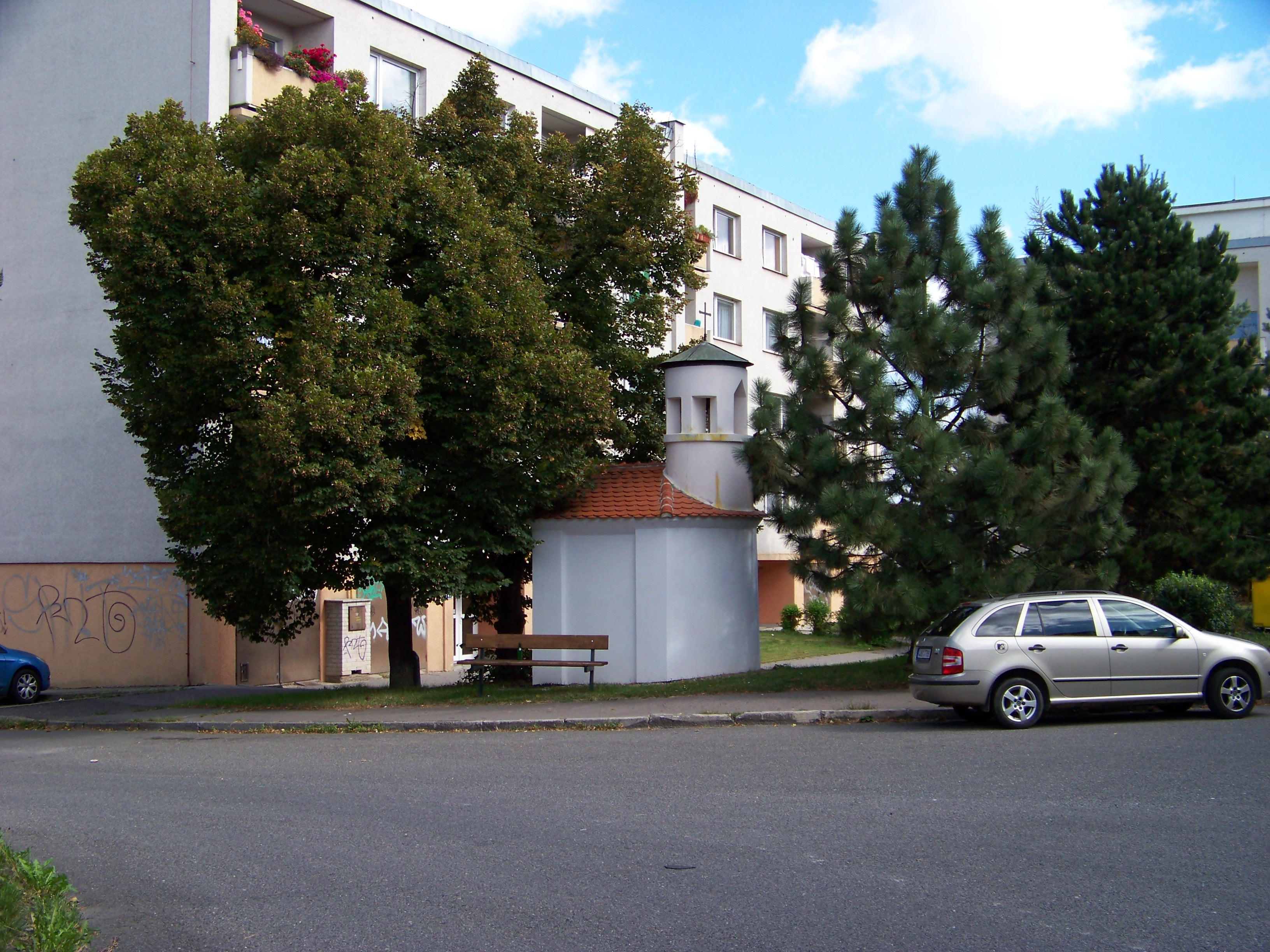 Prague-Háje, the Czech Republic. Starobylá and U rybářství street, chapel of Saint John of Nepomuk. - OpenStreetMap(Info)